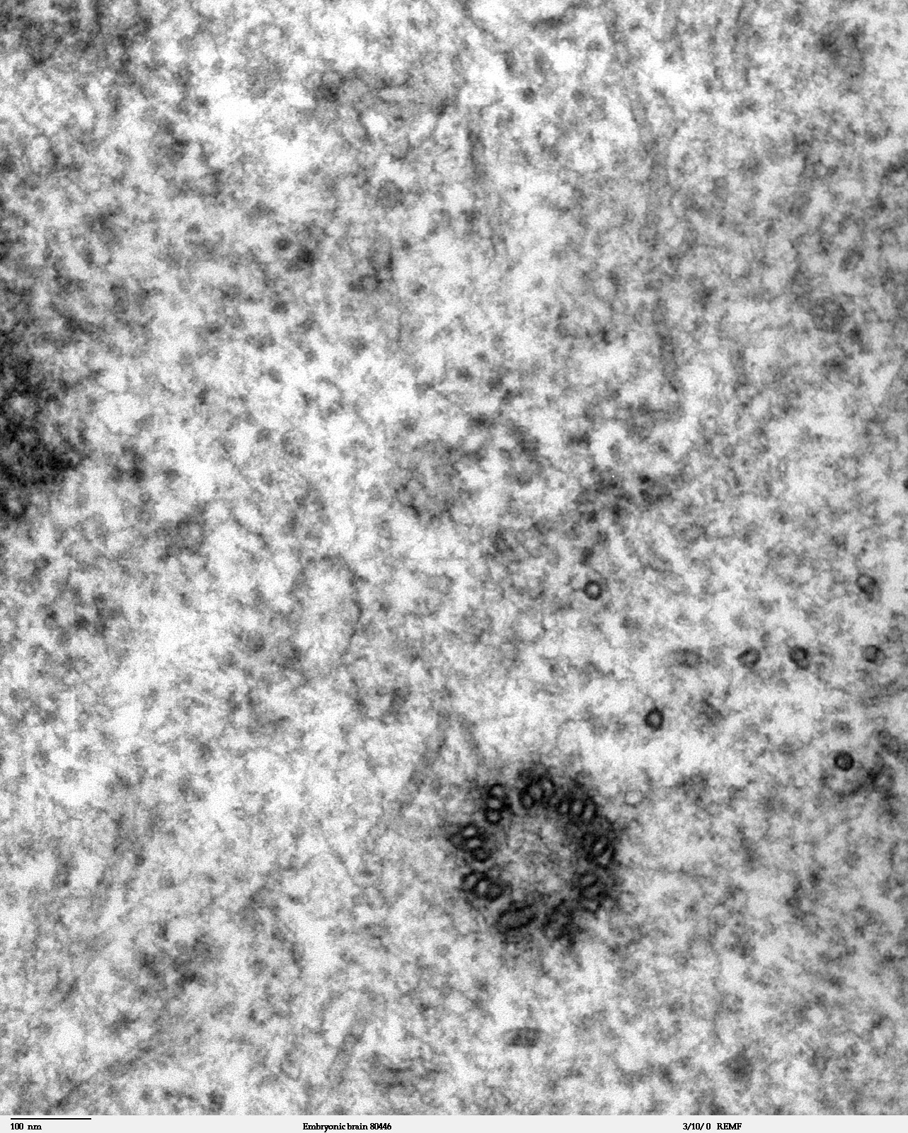 Transmission electron microscope image of a thin section cut through the developing brain tissue (telencephalic hemisphere) of an 11.5 day mouse embryo. This high magnification image of "Embryonic brain 80445" show a spindle centriole and some spindle microtubules visible in the cytoplasm of a mitotic cell at the luminal surface of the telencephalon. JEOL 100CX TEM References: Marin-Padilla, M. (1985) "Early Vascularization of the Embryonic Cerebral Cortex: Golgi and Electron Microscope Studies", J. Comparative Neurology, 241:237-249 Marin-Padilla, M. and M. Amievo (1989) "Early Neurogenesis of the Mouse Olfactory Nerve: Golgi and Electron Microscope Studies", J. Comparative Neurology, 288:339-352